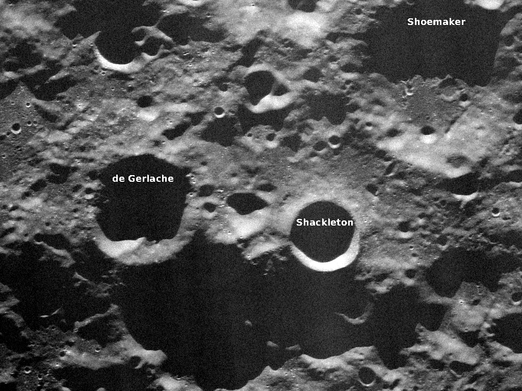 Earth-based radar image of the South Pole of the Moon